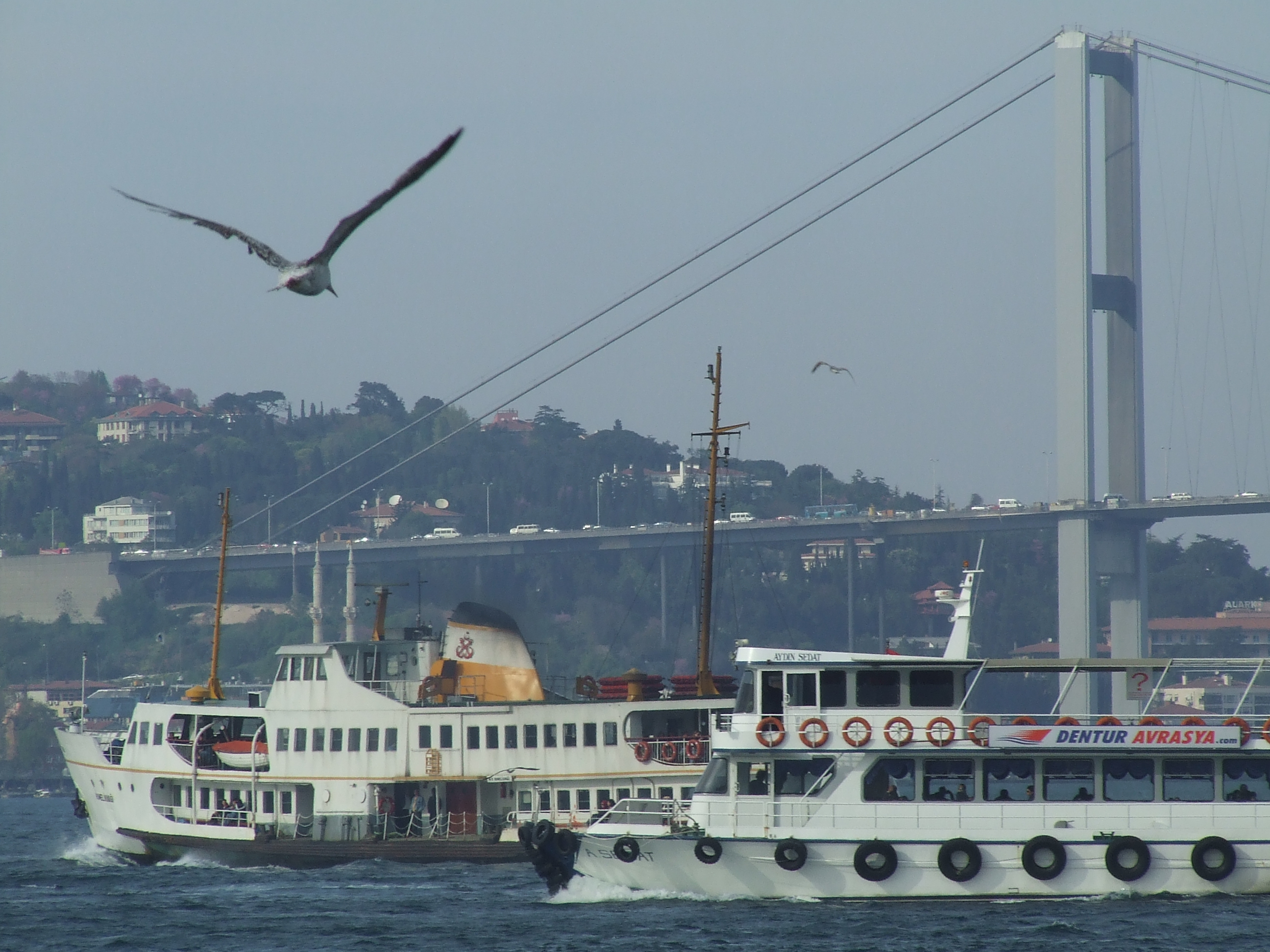 View from the Bosporus, Istanbul"Bosphours" "rushhours" in İstanbul